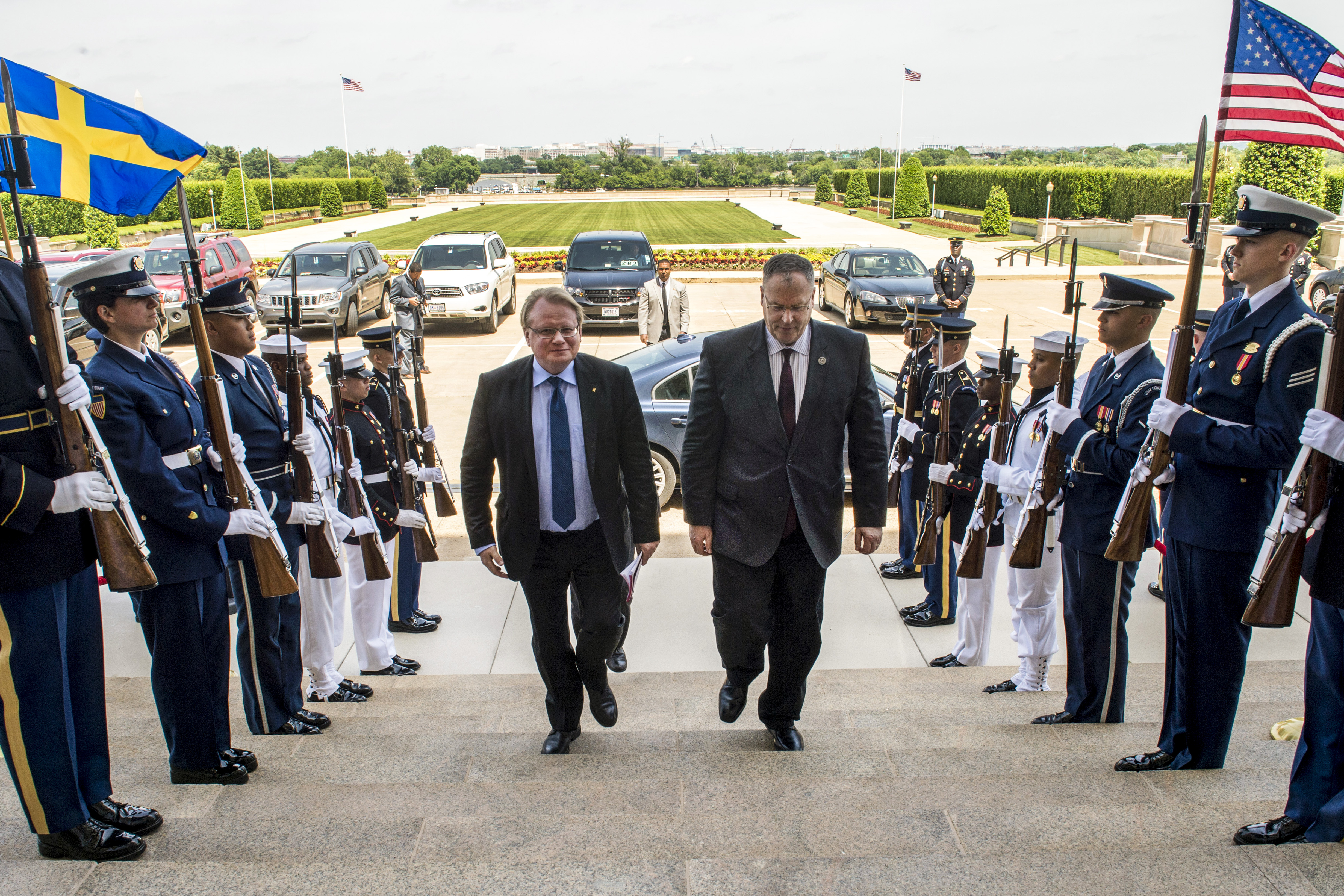 U.S. Deputy Defense Secretary Bob Work hosts an honor cordon to welcome Swedish Defense Minister Peter Hultqvist to the Pentagon, May 20, 2015. The two defense leaders met to discuss matters of mutual importance.